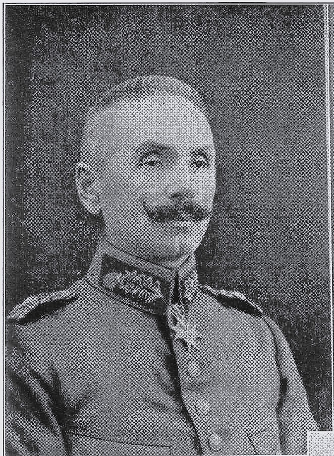 Prussain Lieutenant General Richard Wellmann